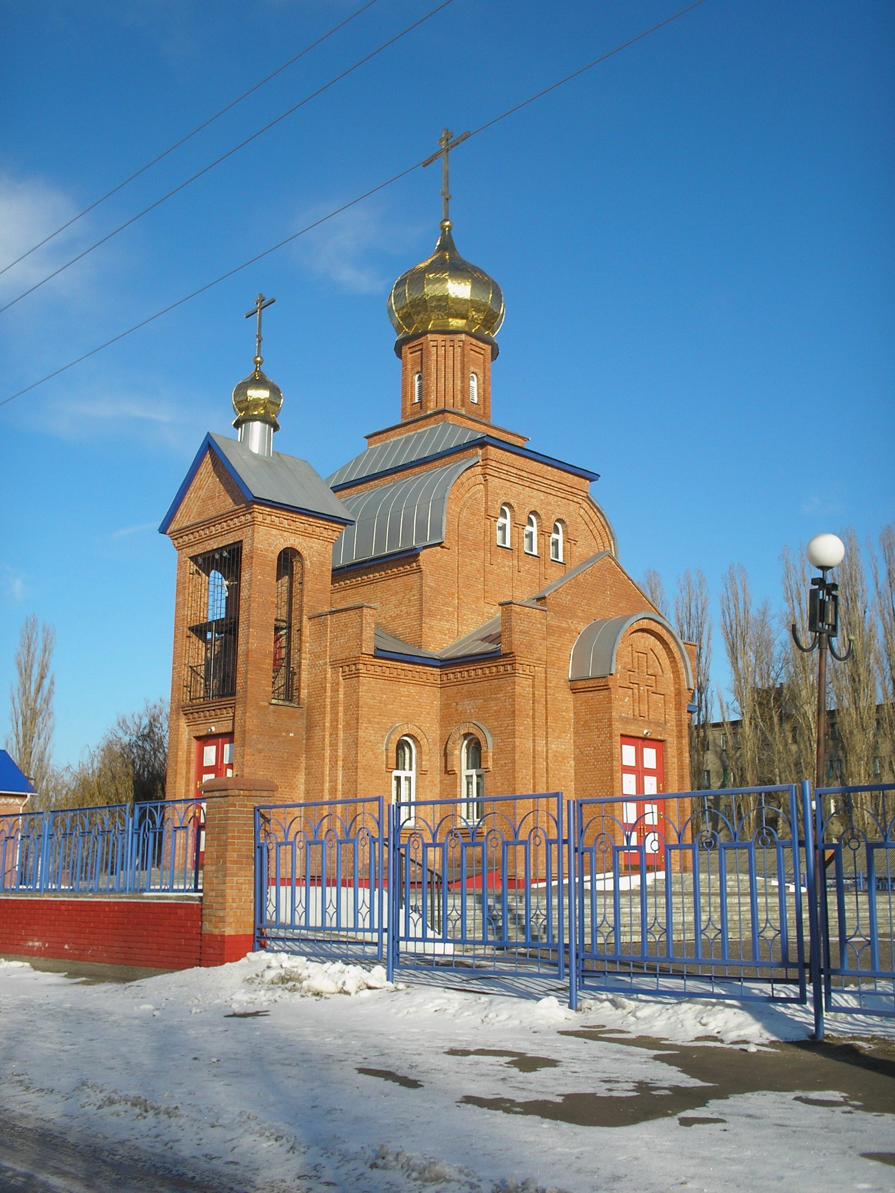 Church of an icon of Divine Mother (Balashov)